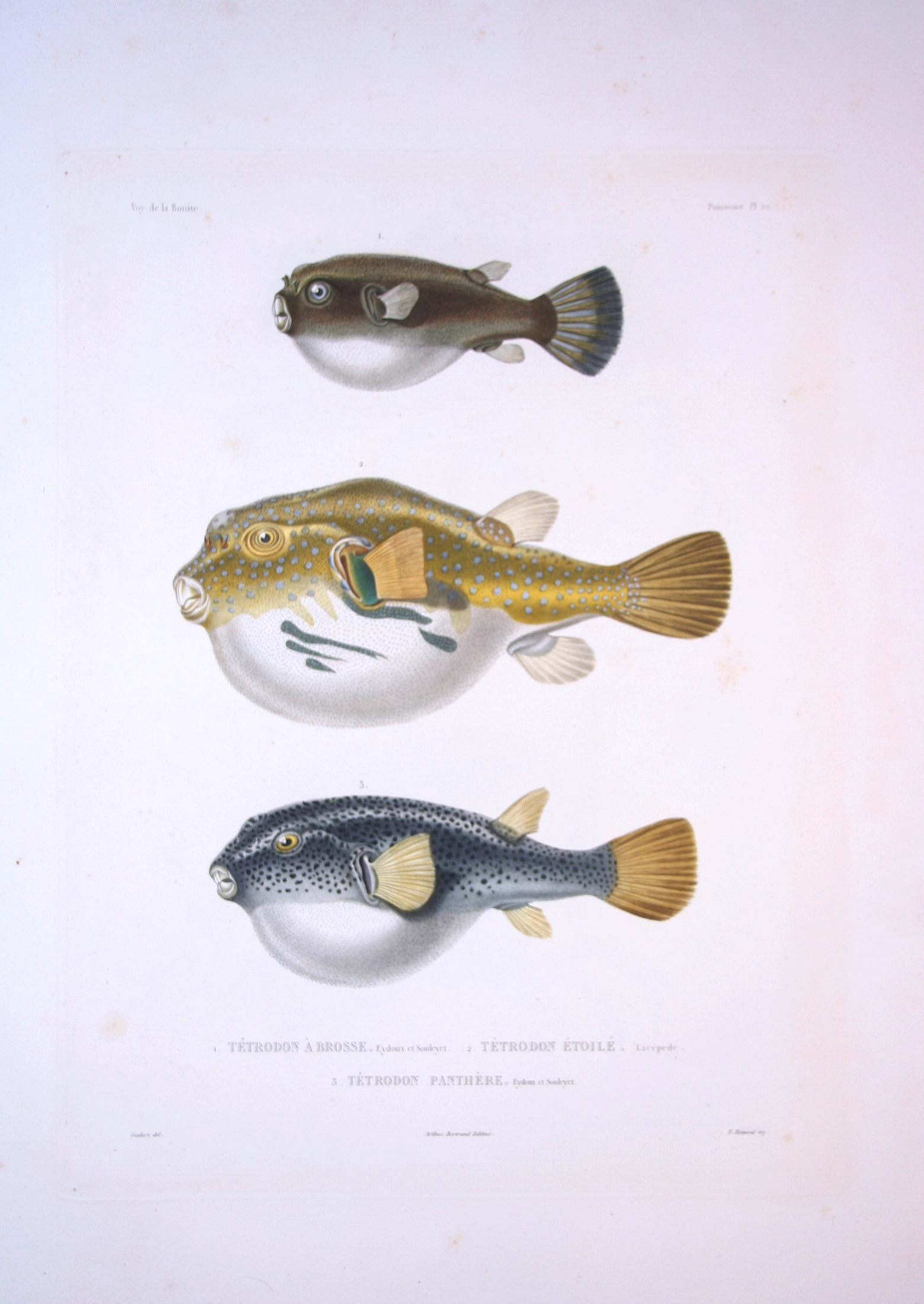 Zoology (fish) Immaculate puffer Star puffer Panther puffer